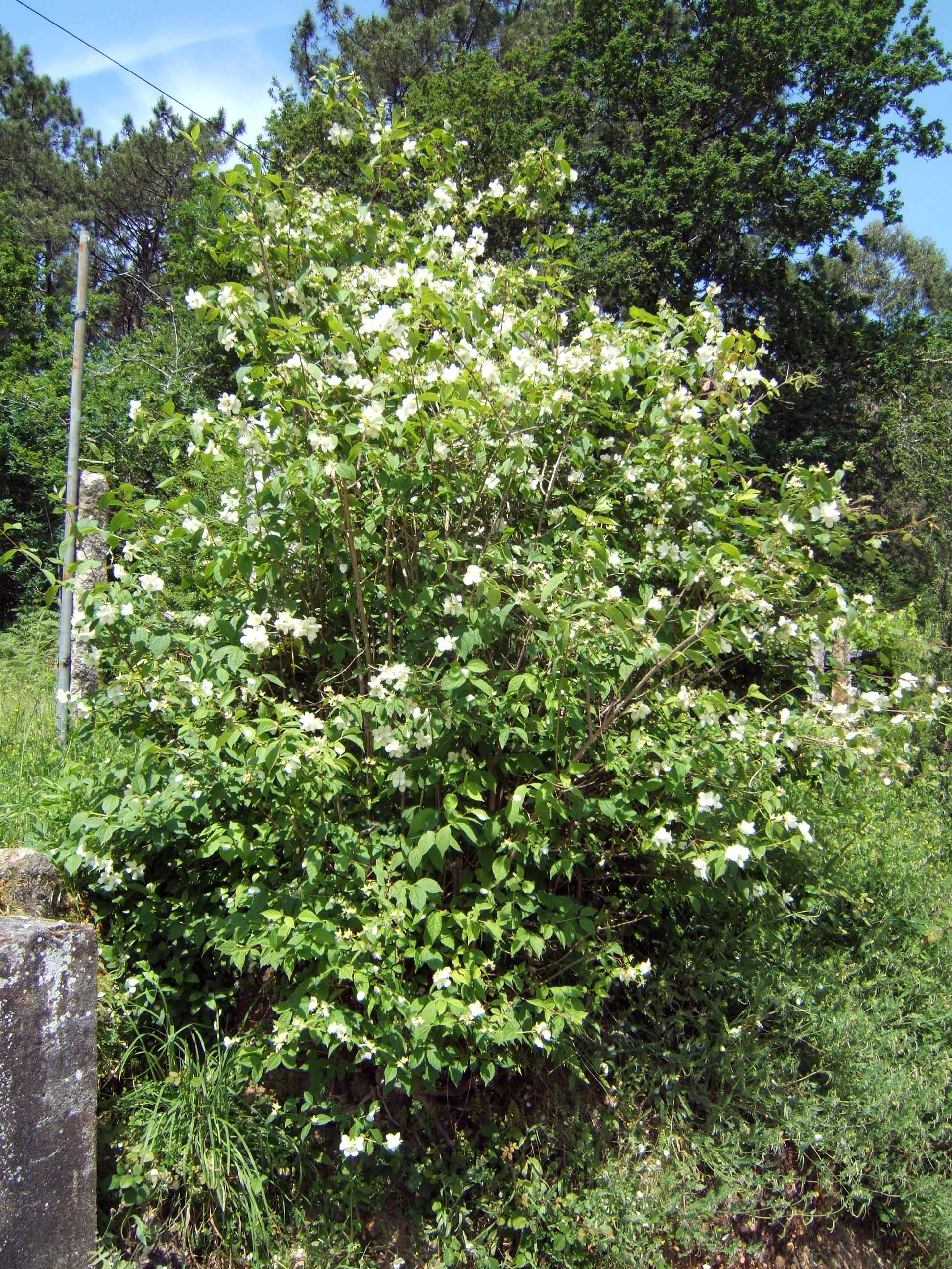 Philadelphus coronarius